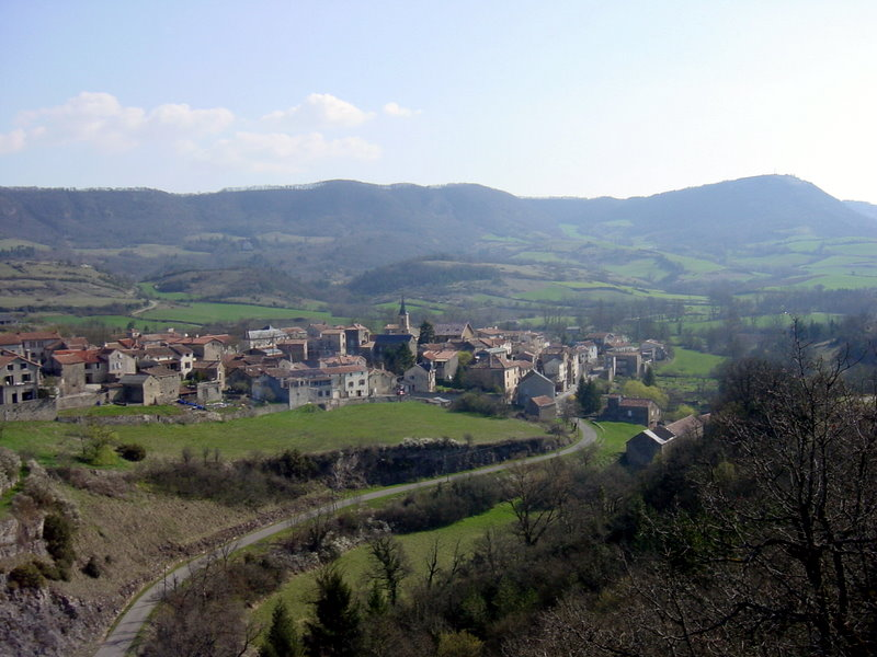 Village of Lapanouse de Cernon